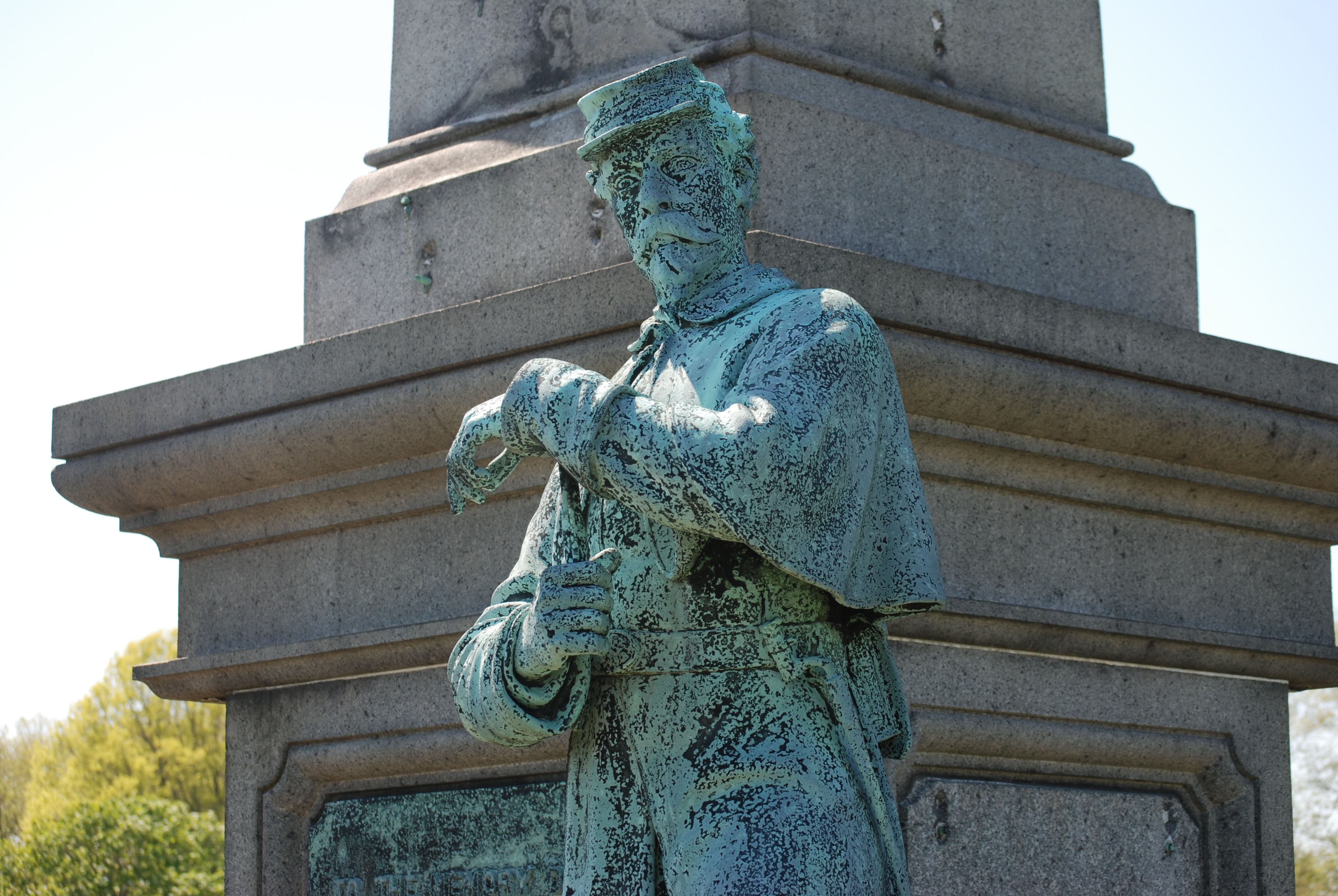 statue of Union solider